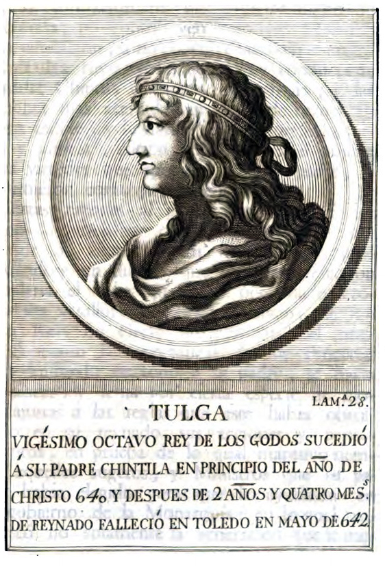 A poster of TULGA, Visigoth king, n° 28 in the chronological order of the book digitalized by Google since the bookshop in the University of Oxford.